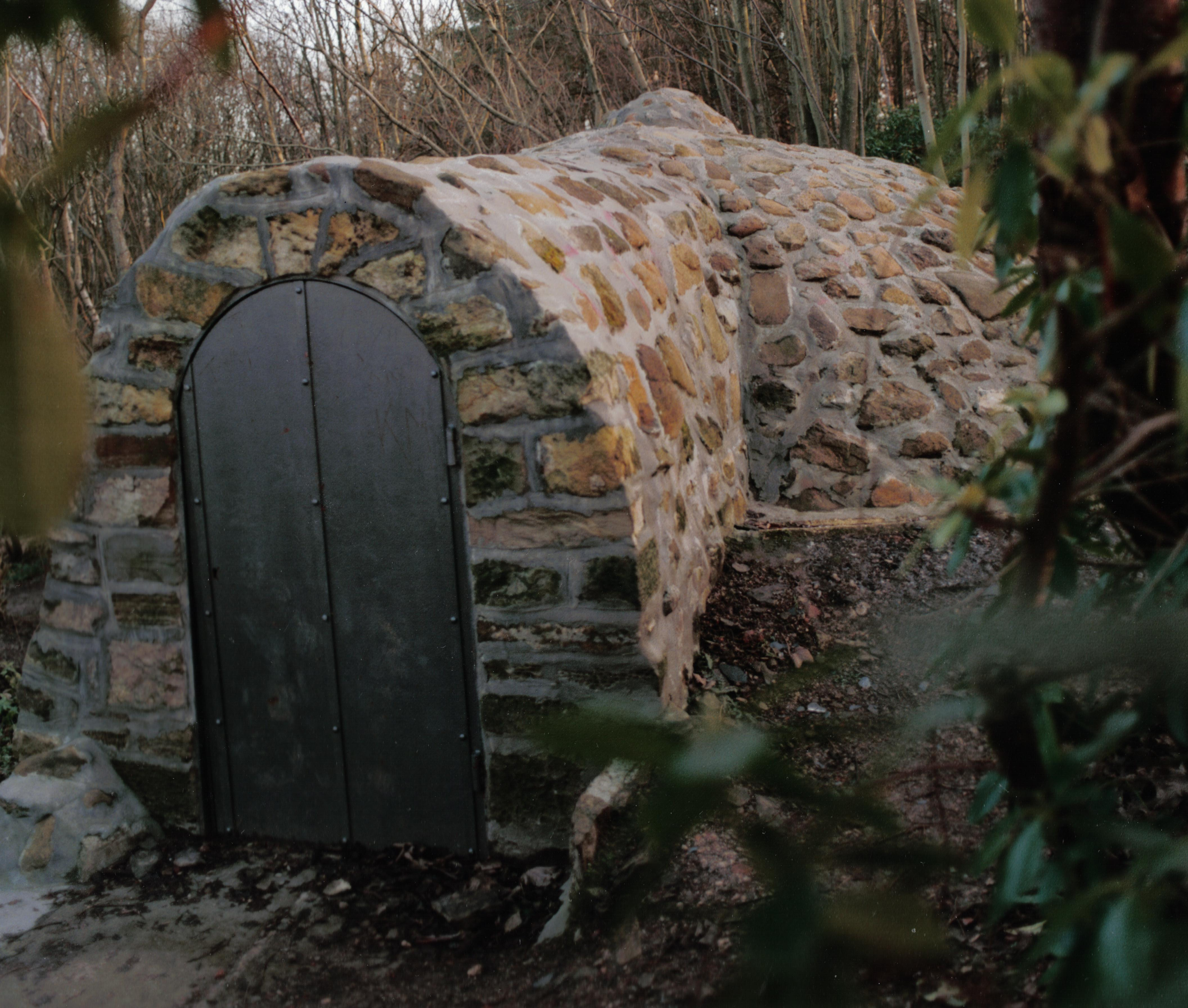 The Eglinton Castle icehouse restored. Irvine, North Ayrshire, Scotland.